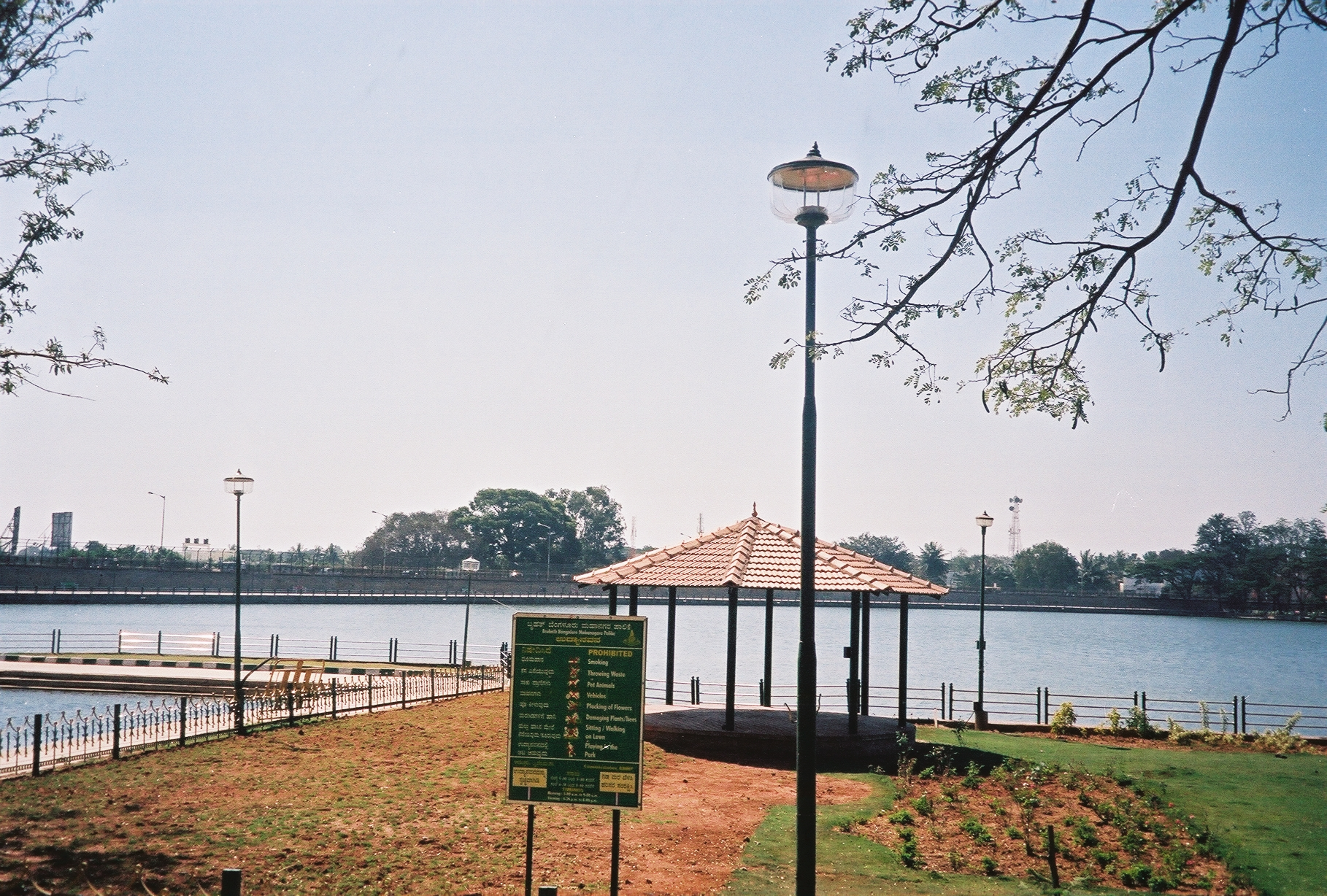 A View of Sankey tank restored recently